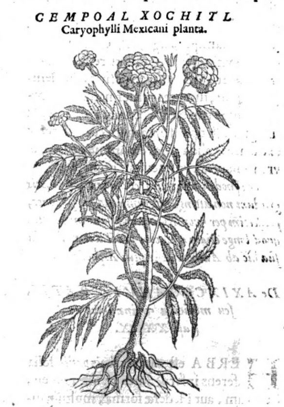 Depiction of Cempasúchil flower (Tagetes erecta) also known as Flor de Muerto, in the work Rerum medicarum Nouae Hispaniae thesaurus of Francisco Hernández Toledo, 1651 edition. Hernadez writes the name as Cempoalxochitl.